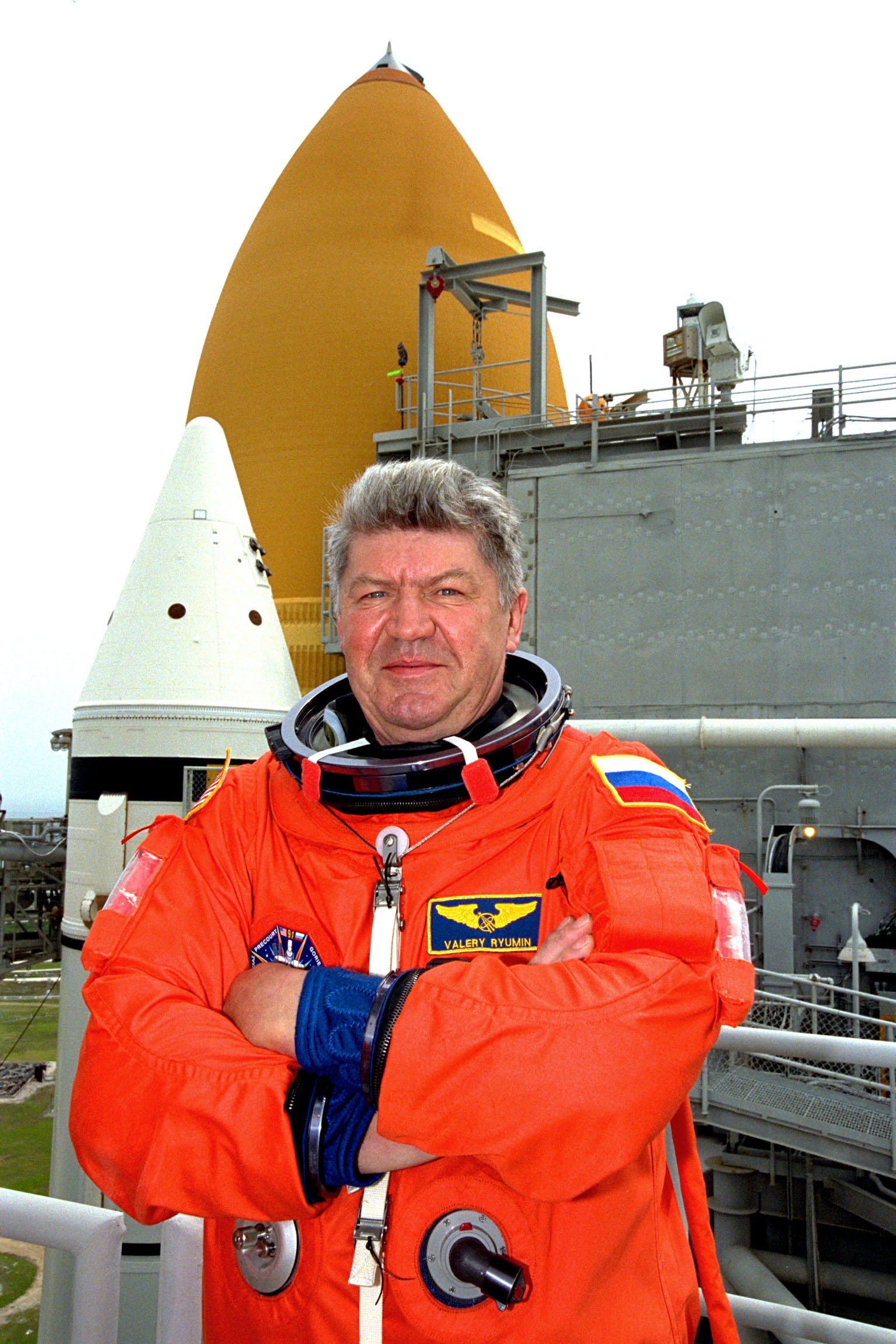 Russian Cosmonaut Valery Victorovitch Ryumin, Member of STS-91-Crew STS-91 Mission Specialist Ryumin pauses at the pad following TCDT activities STS-91 Mission Specialist Valery Ryumin, with the Russian Space Agency, pauses on the 217-foot level of Launch Complex 39A after the completion of Terminal Countdown Demonstration Test (TCDT) activities. Behind him, the Space Shuttle Discovery is being prepared for flight. The TCDT is held at KSC prior to each Space Shuttle flight to provide crews with an opportunity to participate in simulated countdown activities. STS-91 is scheduled to be launched on June 2 with a launch window opening around 6:10 p.m. EDT. The mission will feature the ninth Shuttle docking with the Russian Space Station Mir, the first Mir docking for Discovery, the conclusion of Phase I of the joint U.S.- Russian International Space Station Program, and the first flight of the new Space Shuttle super lightweight external tank. The STS-91 flight crew also includes Commander Charles Precourt; Pilot Dominic Gorie; and Mission Specialists Wendy B. Lawrence; Franklin Chang-Diaz, Ph.D.; and Janet Kavandi, Ph.D. Andrew Thomas, Ph.D., will be returning to Earth with the crew after living more than four months aboard Mir.